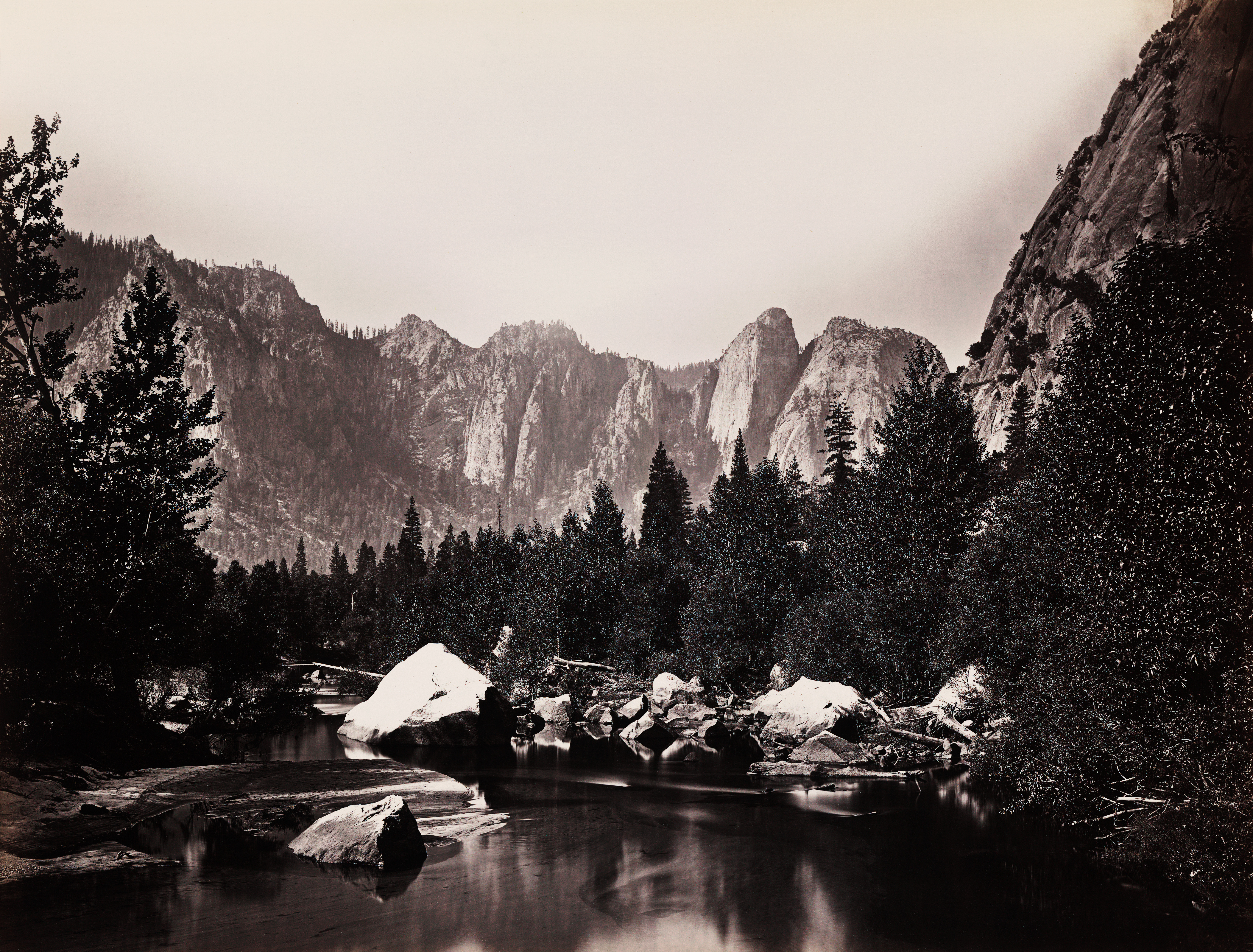 Stream with trees and mountains in background, Yosemite Valley, California. 1 photographic print : albumen.